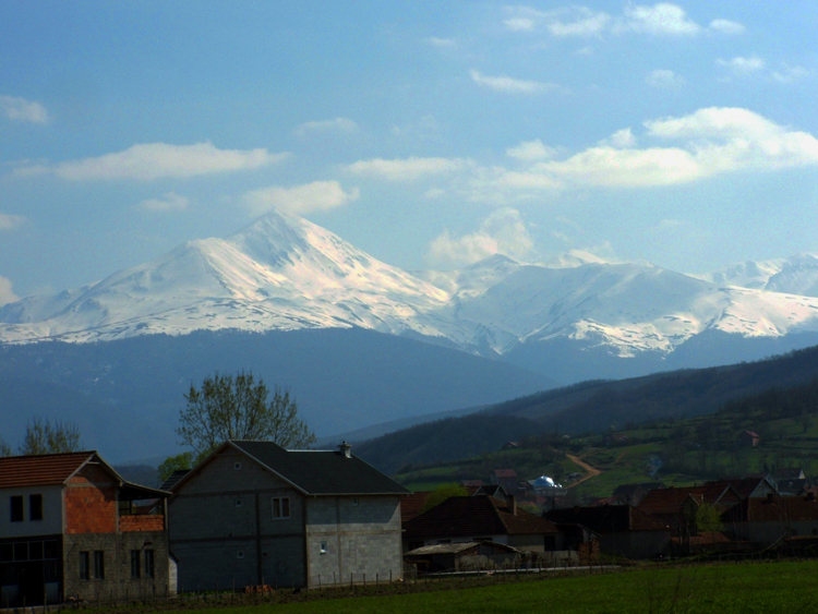 View to Ljuboten/Luboten in the Šar Mountains/Sharr Mountains at the border Macedonia/Kosovo